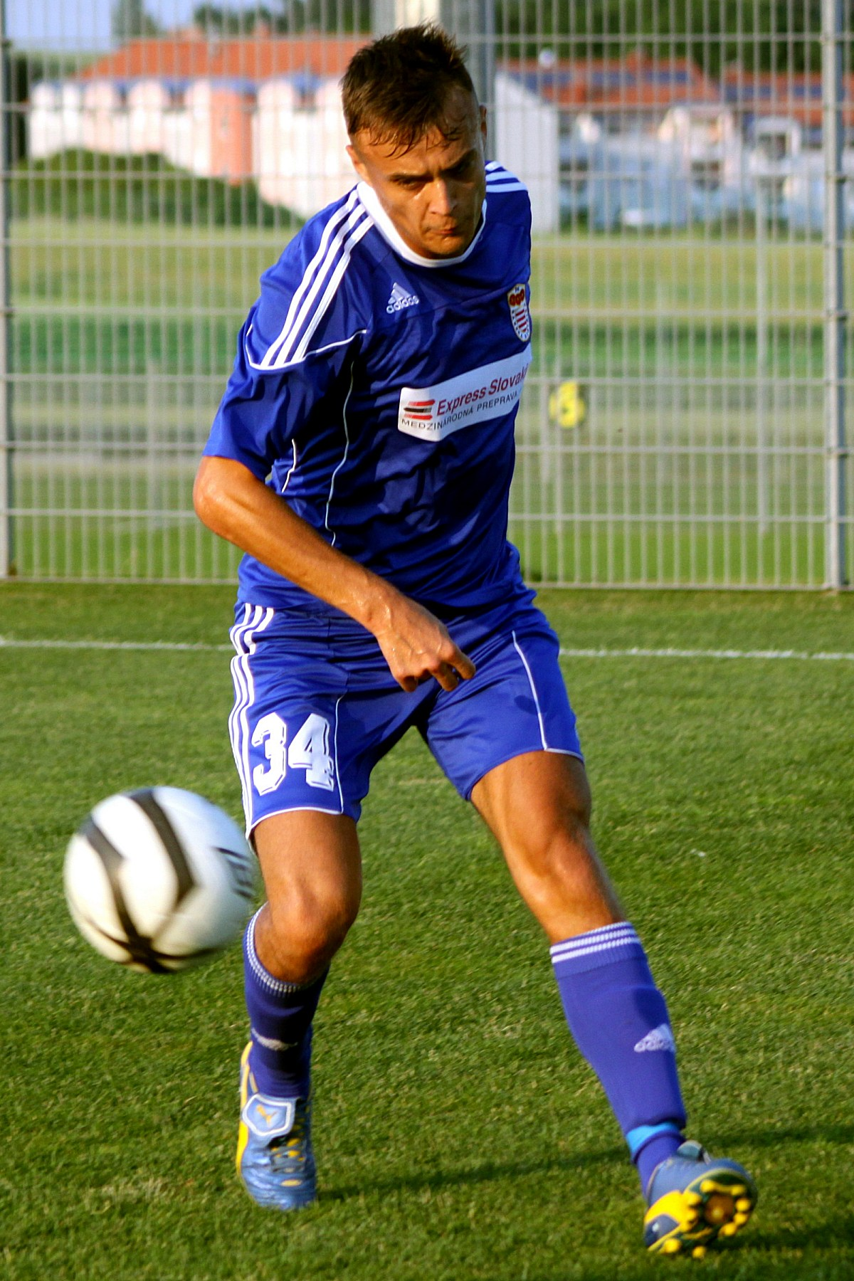 Friendly match SV Mattersburg vs FK Dukla Banská Bystrica (2:2) at 2013-06-21 in Mattersburg. – The photo shows Saša Savić (FK Dukla Banská Bystrica).